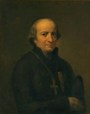 Stefano Bonsigroni, patriarch of Venice